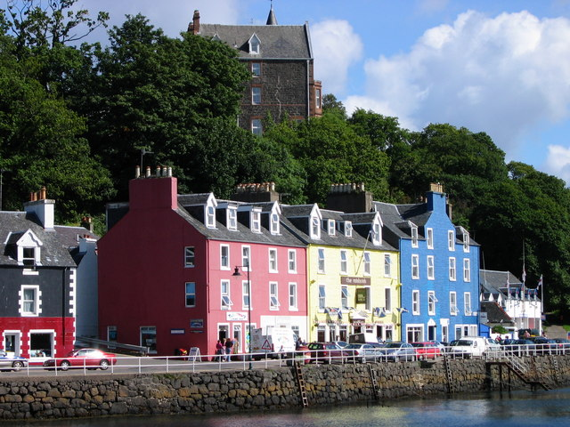 The Mishnish Tobermoray